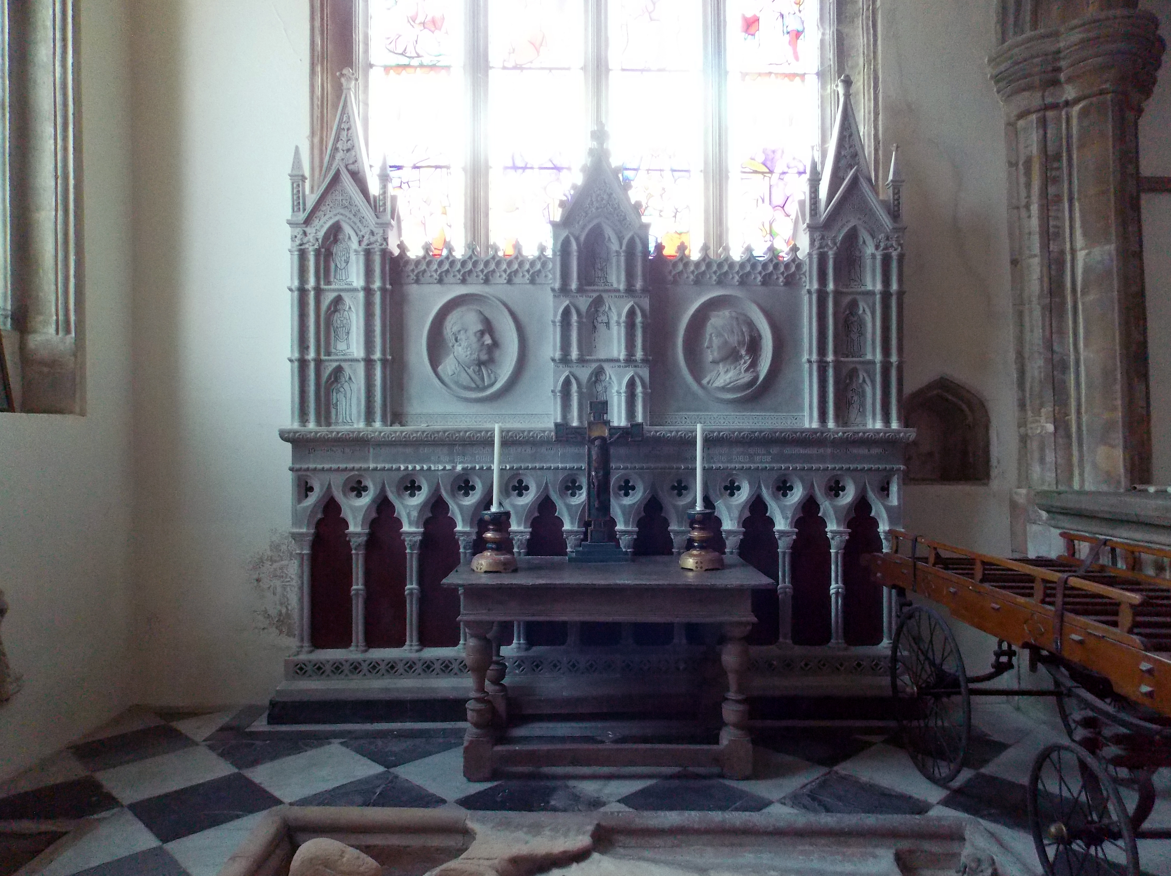 Ss Andrew & Mary, Stoke Rochford, interior - 19th-century north chapel reredos designed by Christopher Turnor for himself and his wife